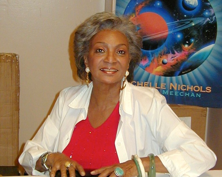 Actress Nichelle Nichols